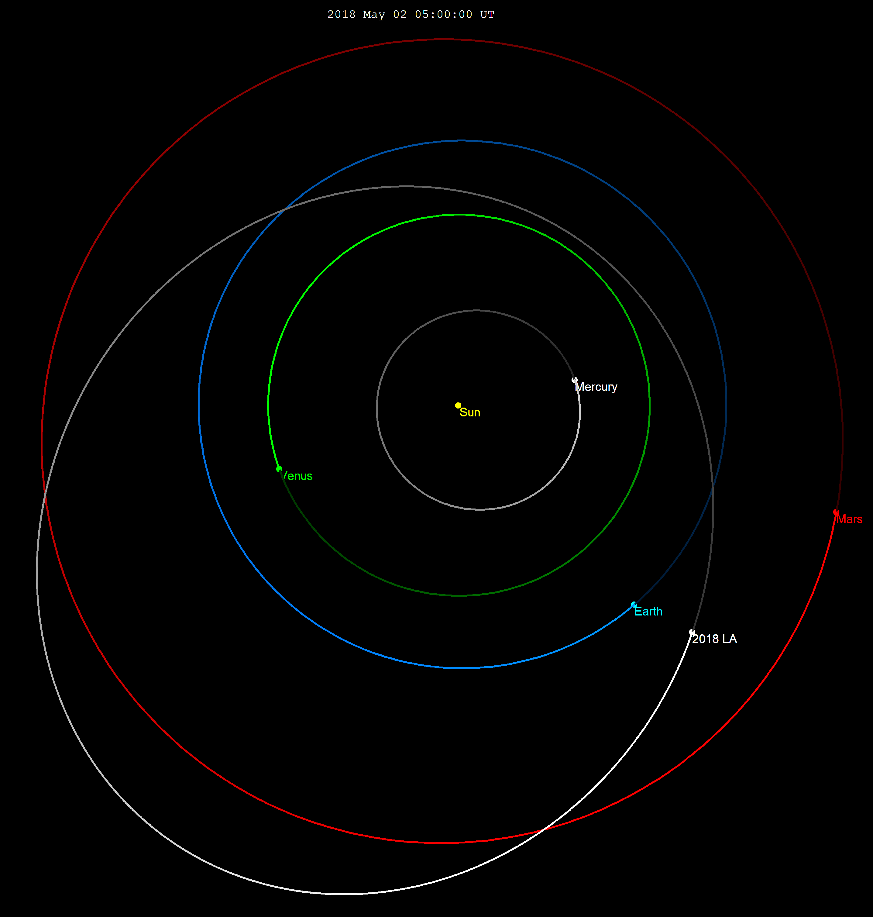 Orbital diagram of 2018 LA